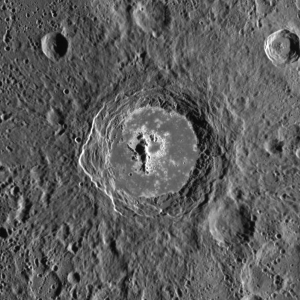 Warhol crater, on Mercury. MESSENGER Wide Angle Camera mosaic. Image is approximately 197 km wide.